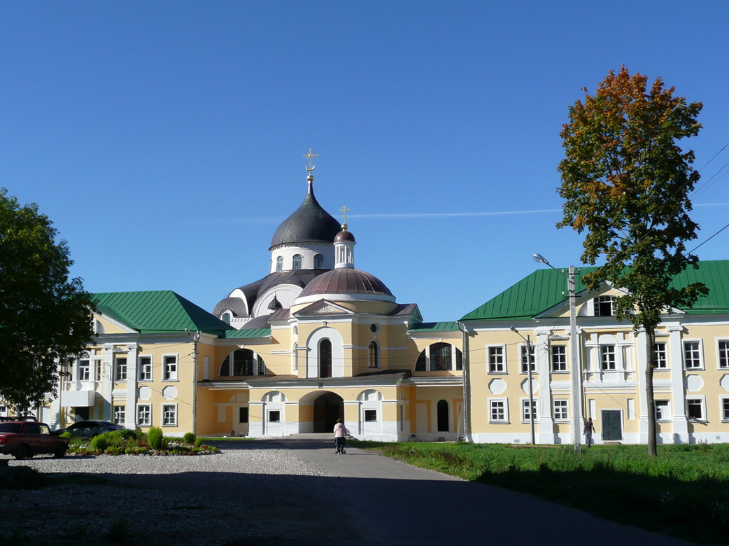 The Nativity Convent in Tver The Saviour Church (1801-05)